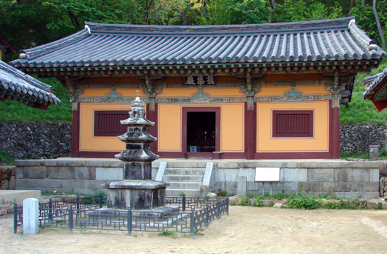 Bongjeongsa Geungnakjeon Bongjeongsa is located at the southern foot of Mt. Cheondungsan, 16 kilometers northwest of Andong city. It was built by the Buddhist Priest Uisangchosa in 672 A.D. As the oldest wooden structure in Korea, it has historic and academic significance. Many important cultural properties, such as Gukrakjeon Hall, Daeungjeon (main prayer hall), Hwaomgangdang Hall, Gogumdang Hall and Muryanghaehoedang Hall are located in the temple compound. In particular, Gukrakjeon Hall is noteworthy, because it clearly shows unique Shilla architectural design unlike most other buildings which adopted Chinese designs.